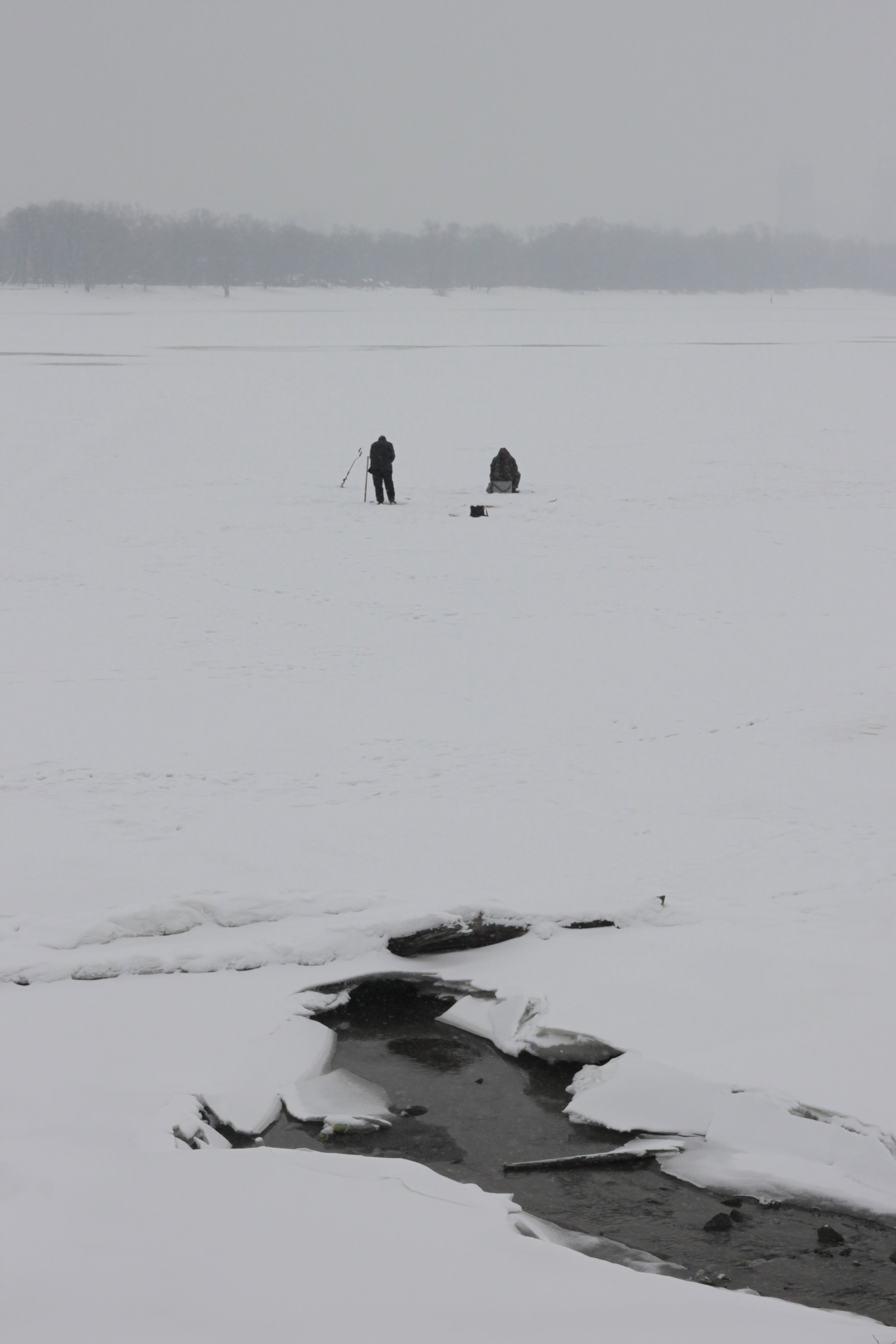 Kyiv,Frozen Dnieper, Fishermen/ Київ, Замерзший Дніпро, Рибалки